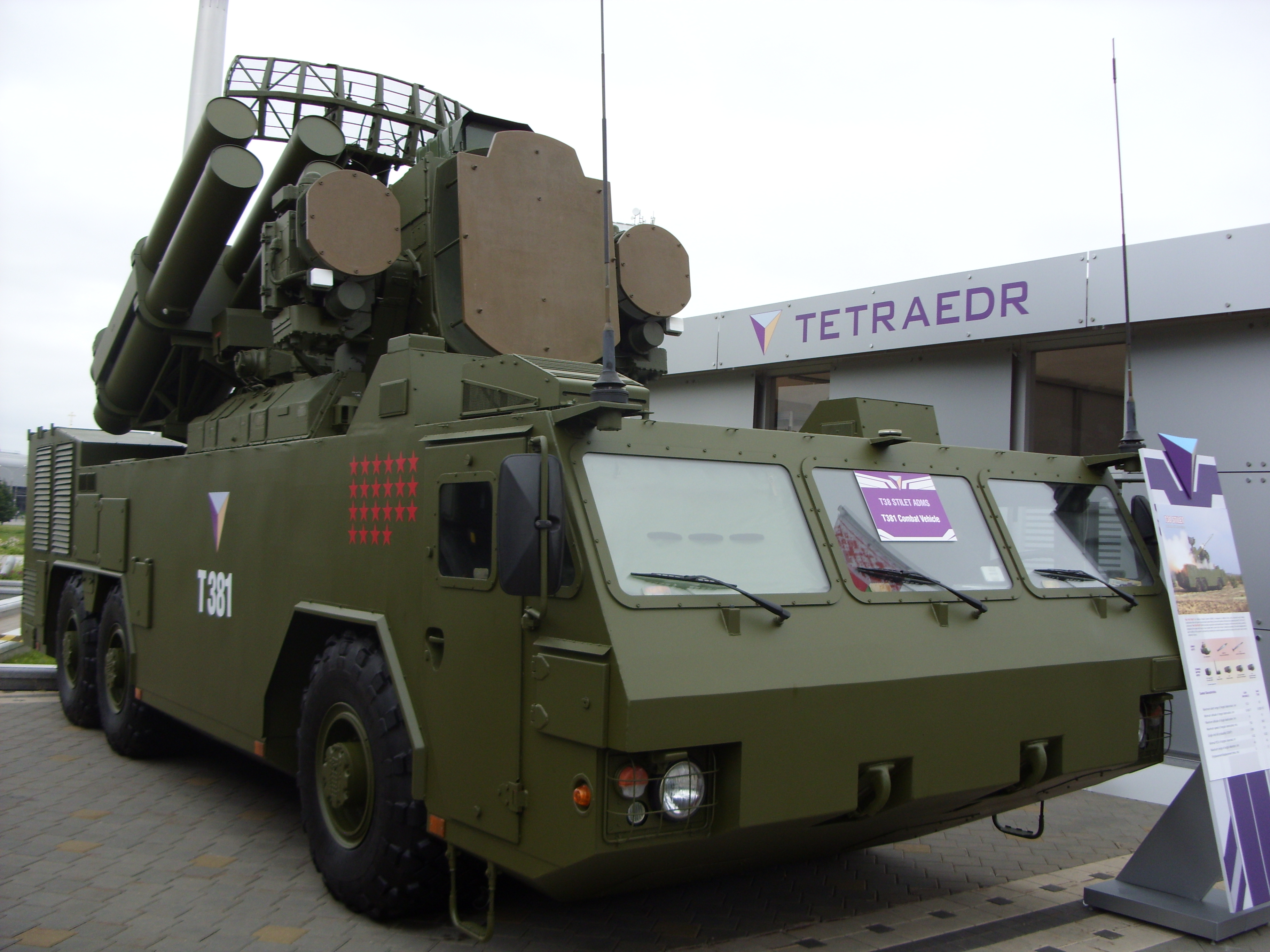 Т38 «Stilet»